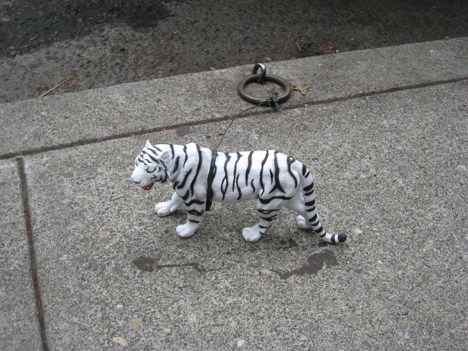 Toy tied up to an old horse ring in Portland, Oregon